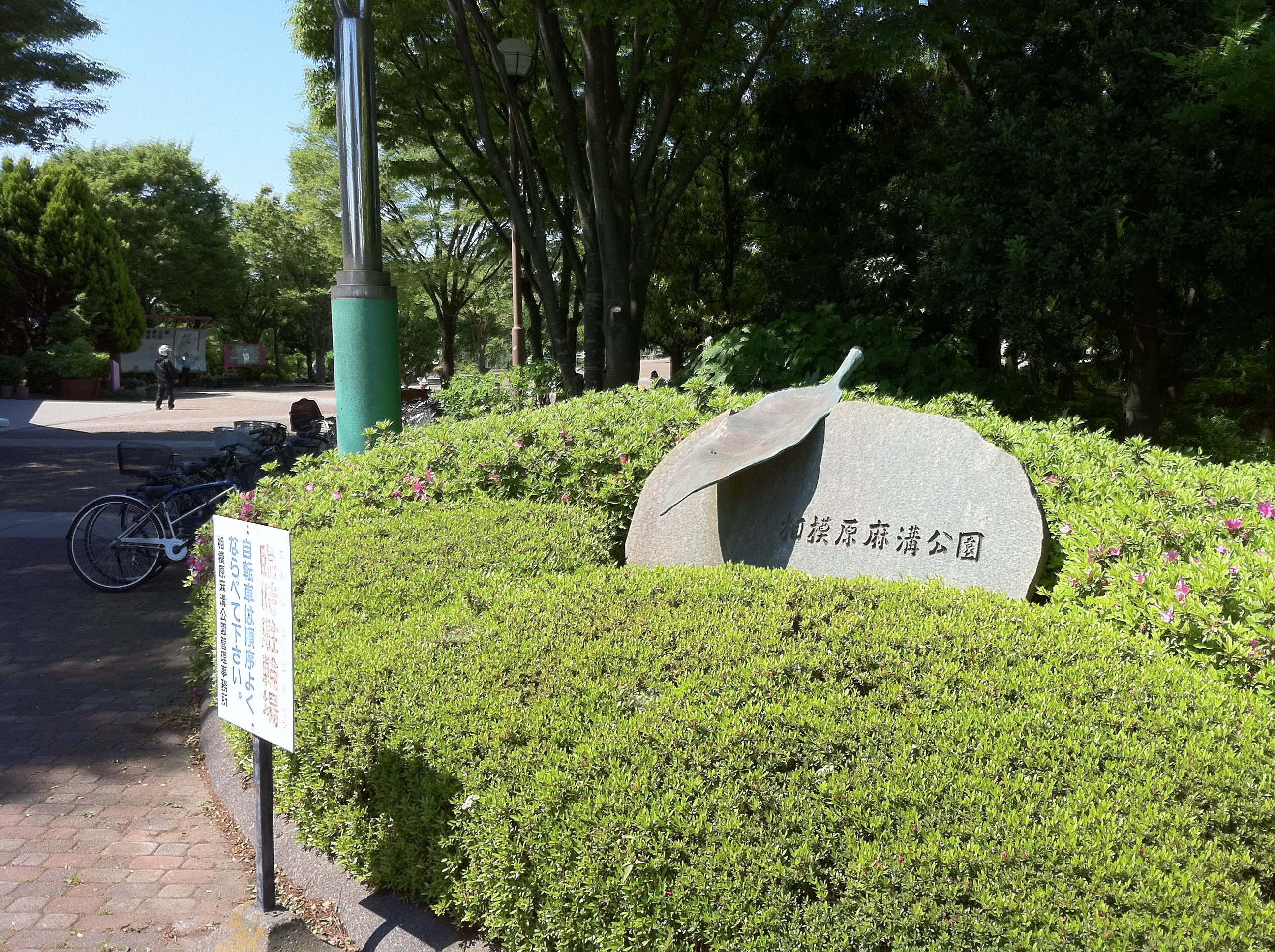 Stone sign of Sagamihara Asamizo Park in Sagamihara, Kanagawa, Japan.